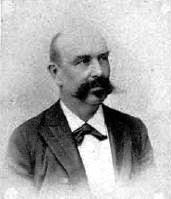 Ivan Vencajz (1844-1913), Slovene lawyer and politician